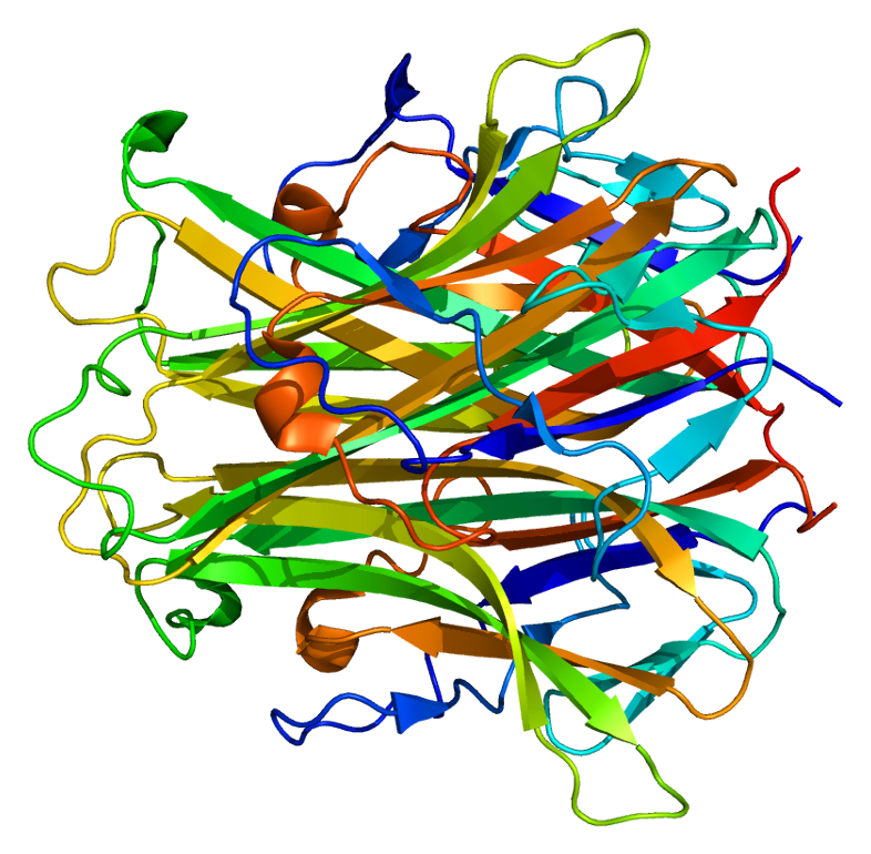 Structure of the TNFSF11 protein. Based on PyMOL rendering of PDB 1s55.